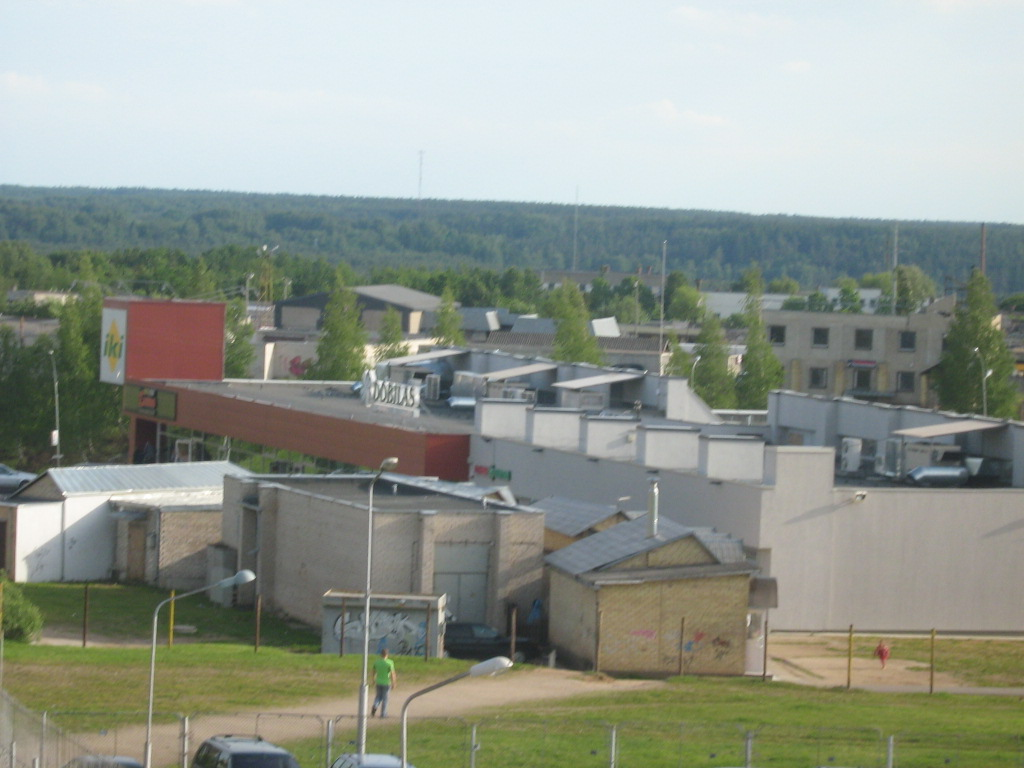 Dobilas mall